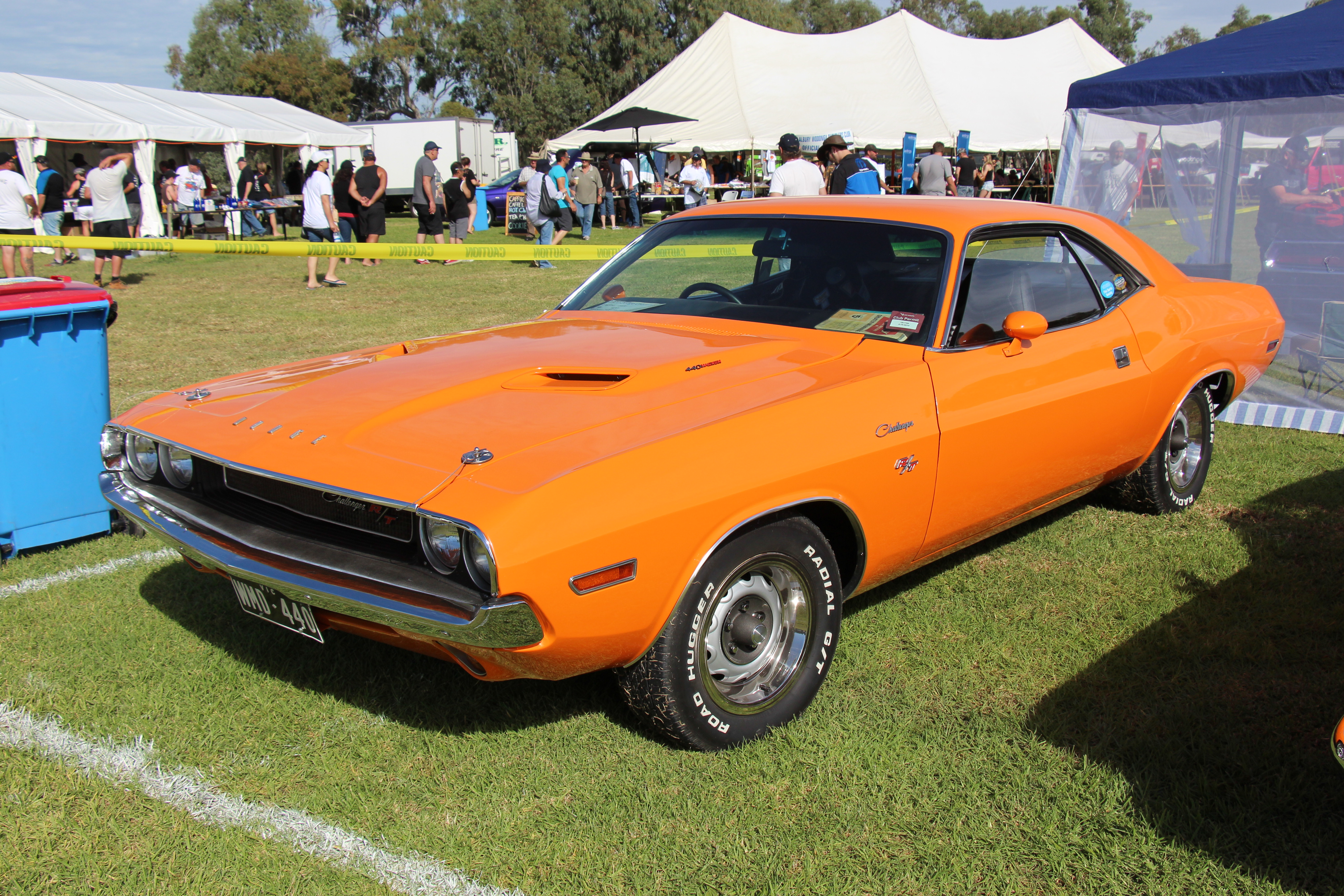 Go Mango. The Challenger was a muscle car built by Dodge on the small pony car platform, competition for the Mustang and Camaro. It was one of two Chrysler E-body cars, the other being the slightly smaller Plymouth Barracuda. This is the 1st of the 1st generation cars, they were built from 1970-74. Models available; base model or the SE luxury model (leather seats and vinyl roof with smaller back window) Engines; 6 cyl or 318 and 340 V8s Also the RT performance model, it got the power bulge hood, hood pins and 2 air intakes, the shaker hood was optional Engines; 383 V8 optional 375 hp 440 Magnum, 390 hp 440 6 pack or 425 hp 426 Hemi Also the 340 TA 6 pack with fibreglass hood, rear spoiler and side exit exhaust This car has the U Code 440 Magnum V8, optional on the RT